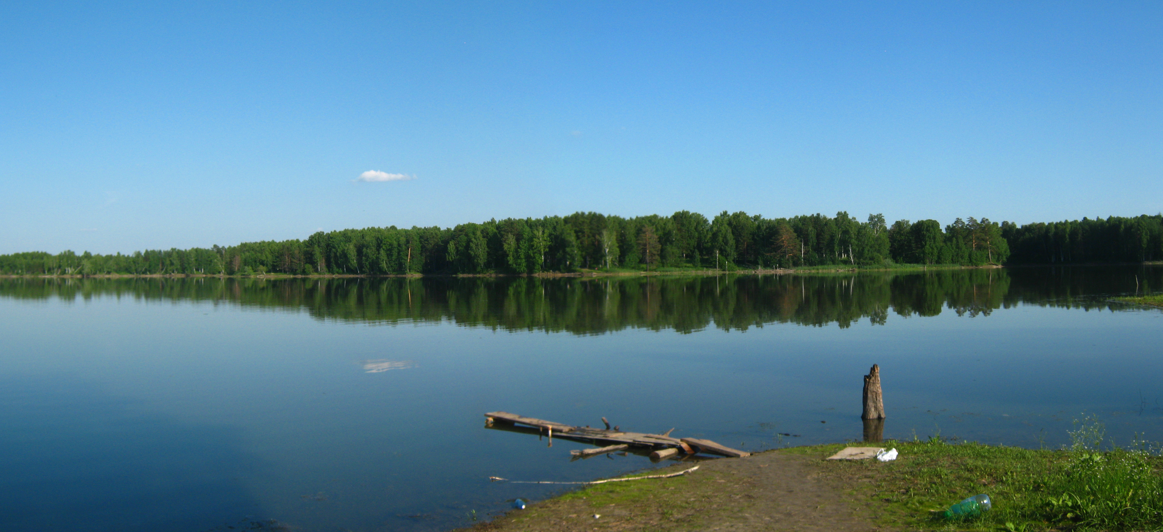 Pond near Kandinka village